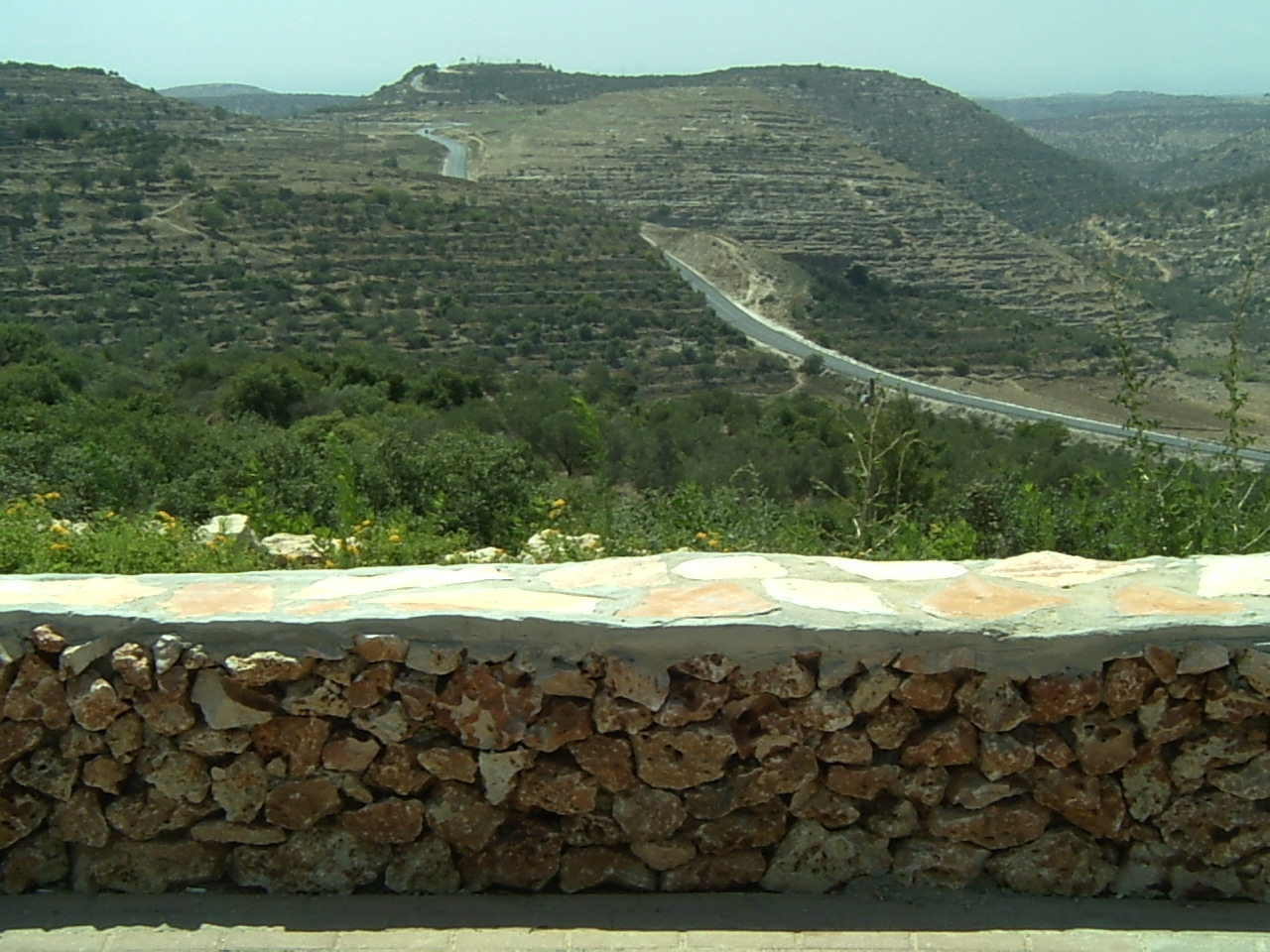 View from Neve Tzuf (Halamish) Česky: Výhled z Neve Cuf